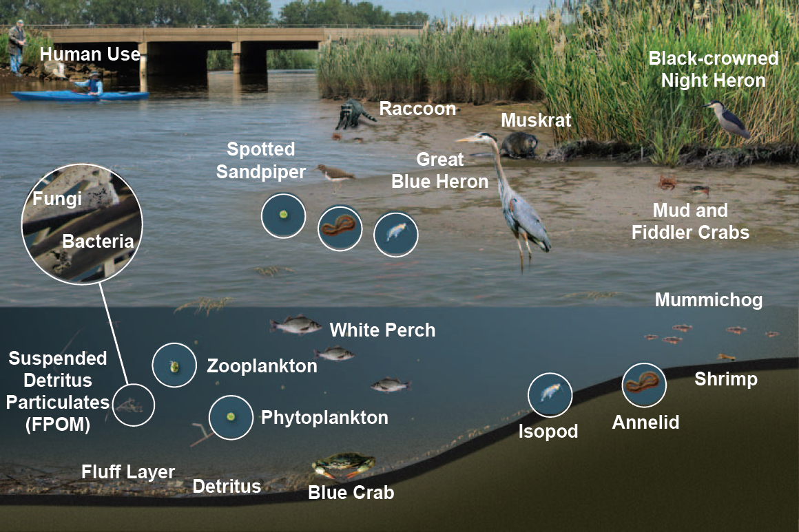 Food web illustration for Berry's Creek, in the New Jersey Meadowlands. (FPOM = fine particulate organic matter)